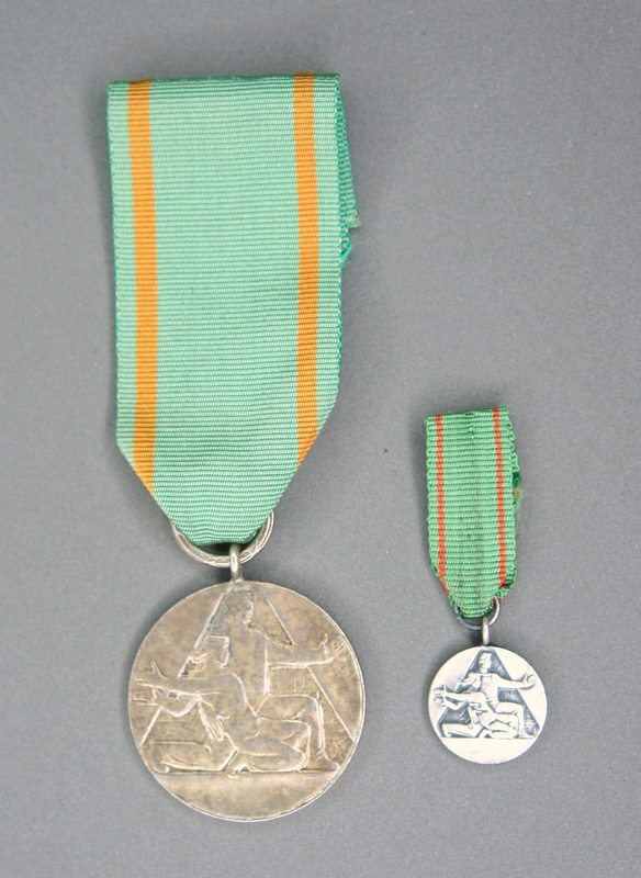 Medal for Sacrifice and Courage - Polish civilian award established in 1960. It was designed by Józef Gosławski.